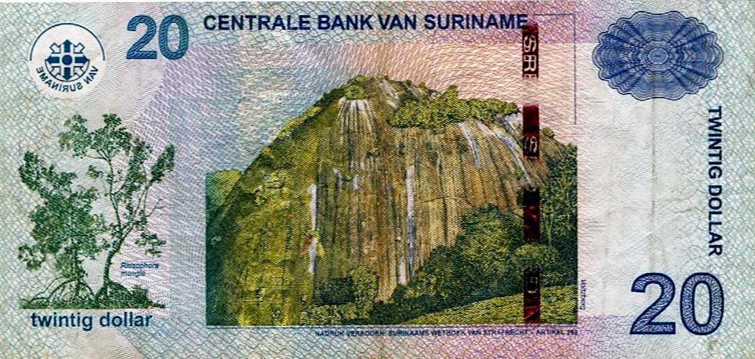 20 Suriname Dollar Banknote